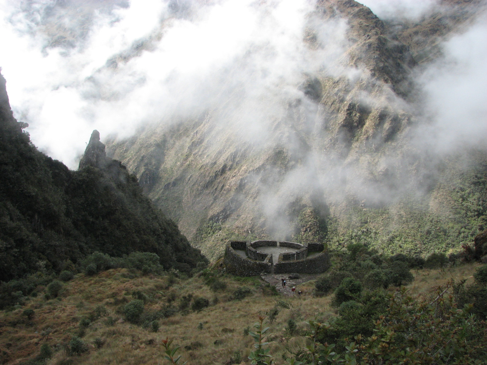 Steve Pastor own work Runkuraqay, Inca Trail, Peru 2008